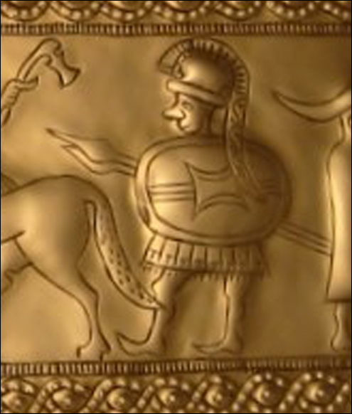 Part of the Reproduction of Bronze belt plaque from Vace, Slovenia, 400 BC, Hallstatt culture.